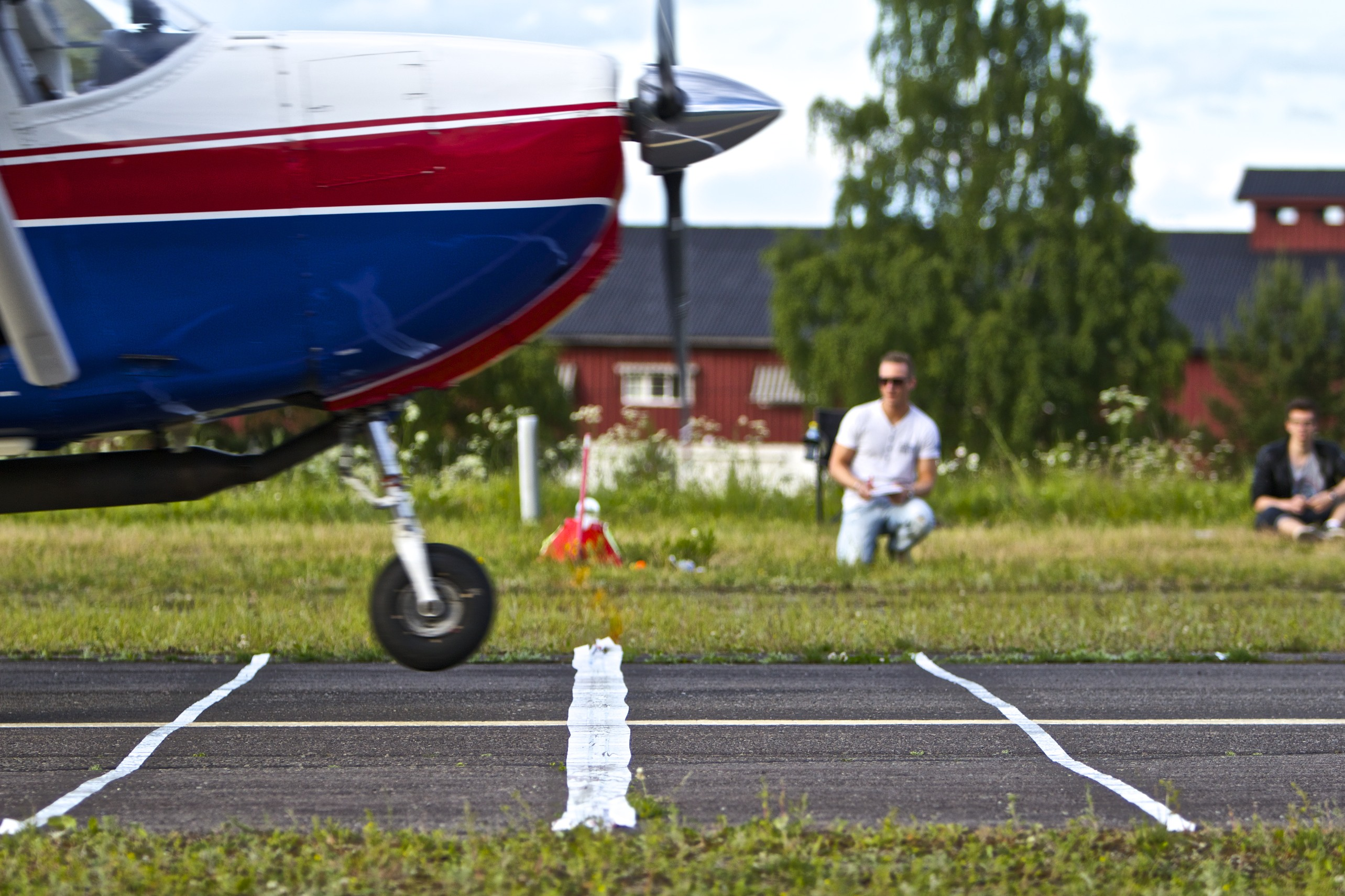 landing contest Landing contest at Hamar Airport, Stafsberg in Norway